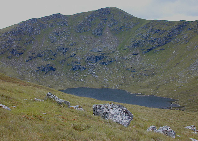 Loch Toll an Lochain With A' Chailleach behind.